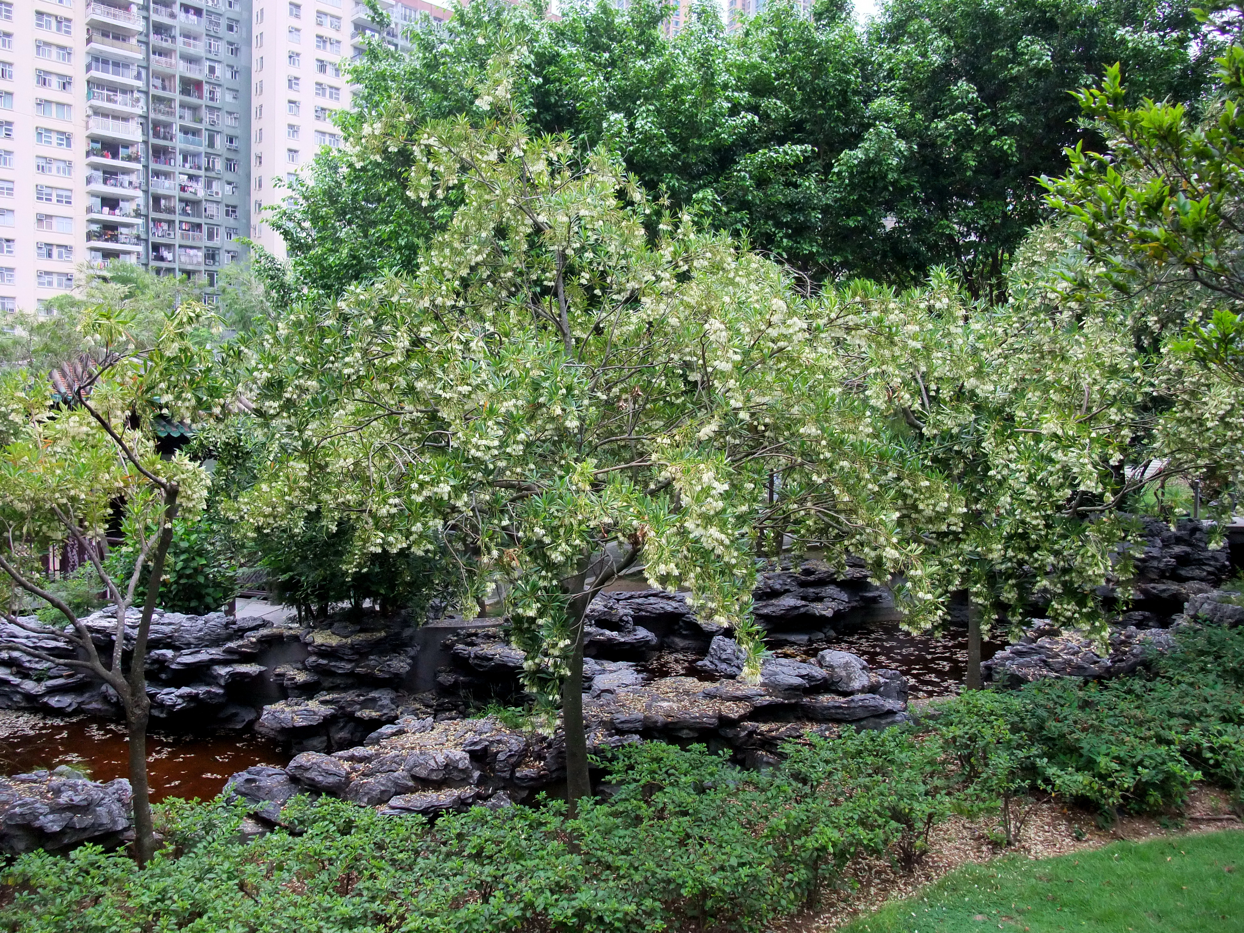 A Elaeocarpus hainanensis in Lai Chi Kok Park, Hong Kong.